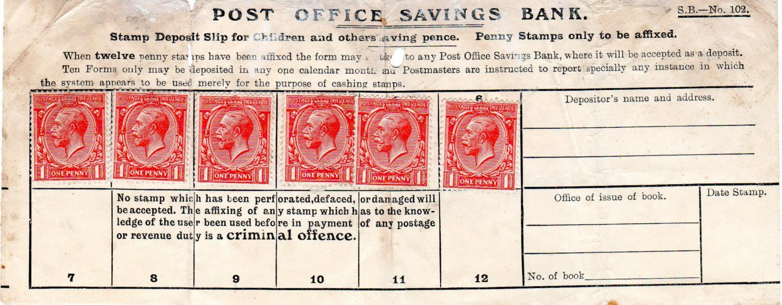 Deposit slip for the Post Office Savings Bank from the reign of King George V.